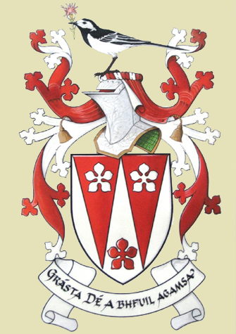 This is an image of the coat of arms of Nicholas Williams. I made the image based on a digital photo I took.